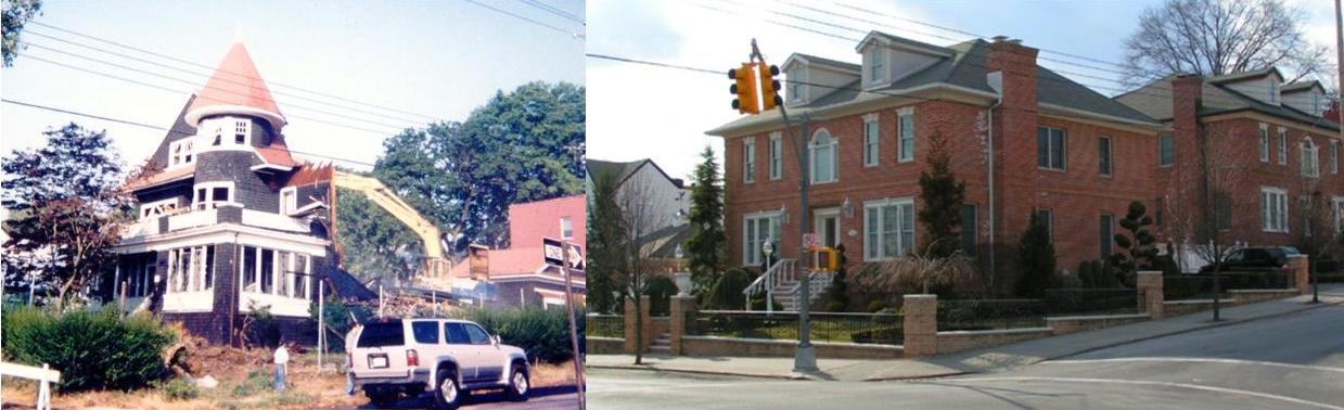 Richard Perry Chittenden, Assistant of the Corporation Counsel, purchased this Shingle Style house for $15,000 in August of 1899. It was designed by Constantine Schubert. In the summer of 1999 the Chittenden House, which was virtually unchanged since 1899, met its painful demise. - From the collections of the Dyker Heights Historical Society. user:cjz208, of the Dyker Heights Historical Society, is the copyright holder of this work, and has published or hereby publishes it under the following license